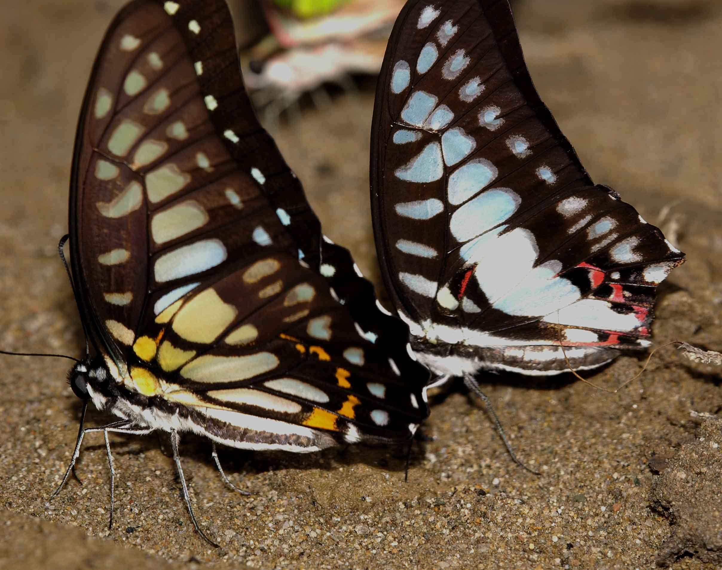 Veined Jay Graphium chiron (left) and Common Jay Graphium doson (right) Family Papilionidae, Lepidoptera